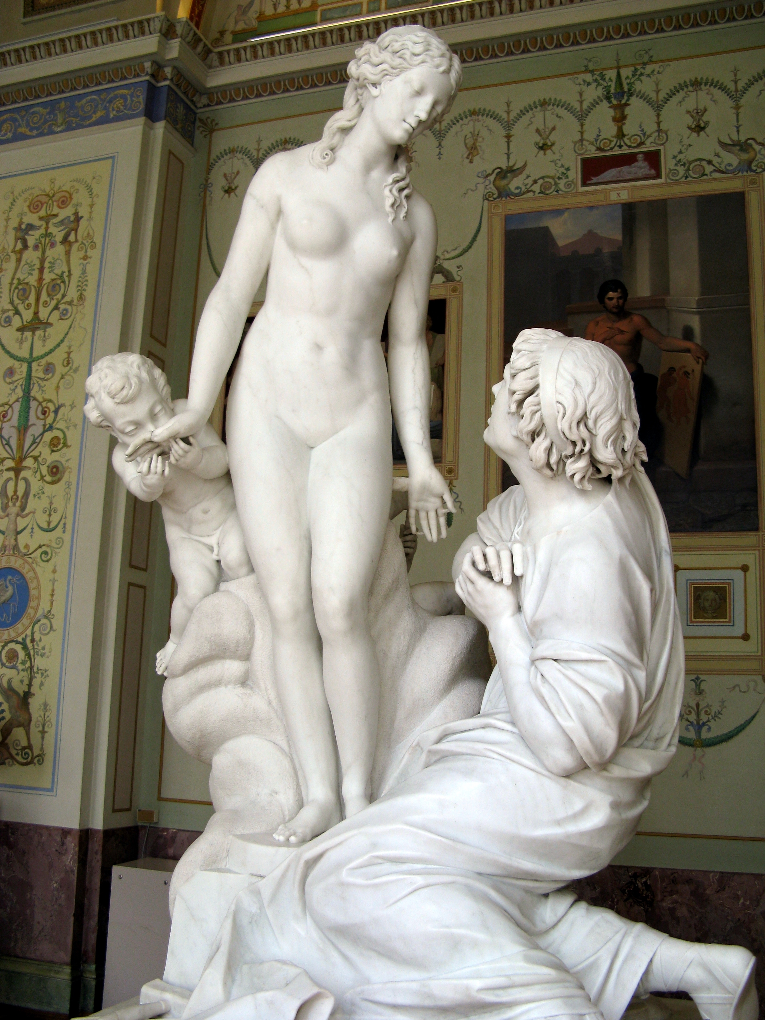 Pygmalion & Galatee by Étienne Maurice Falconet at the Hermitage.